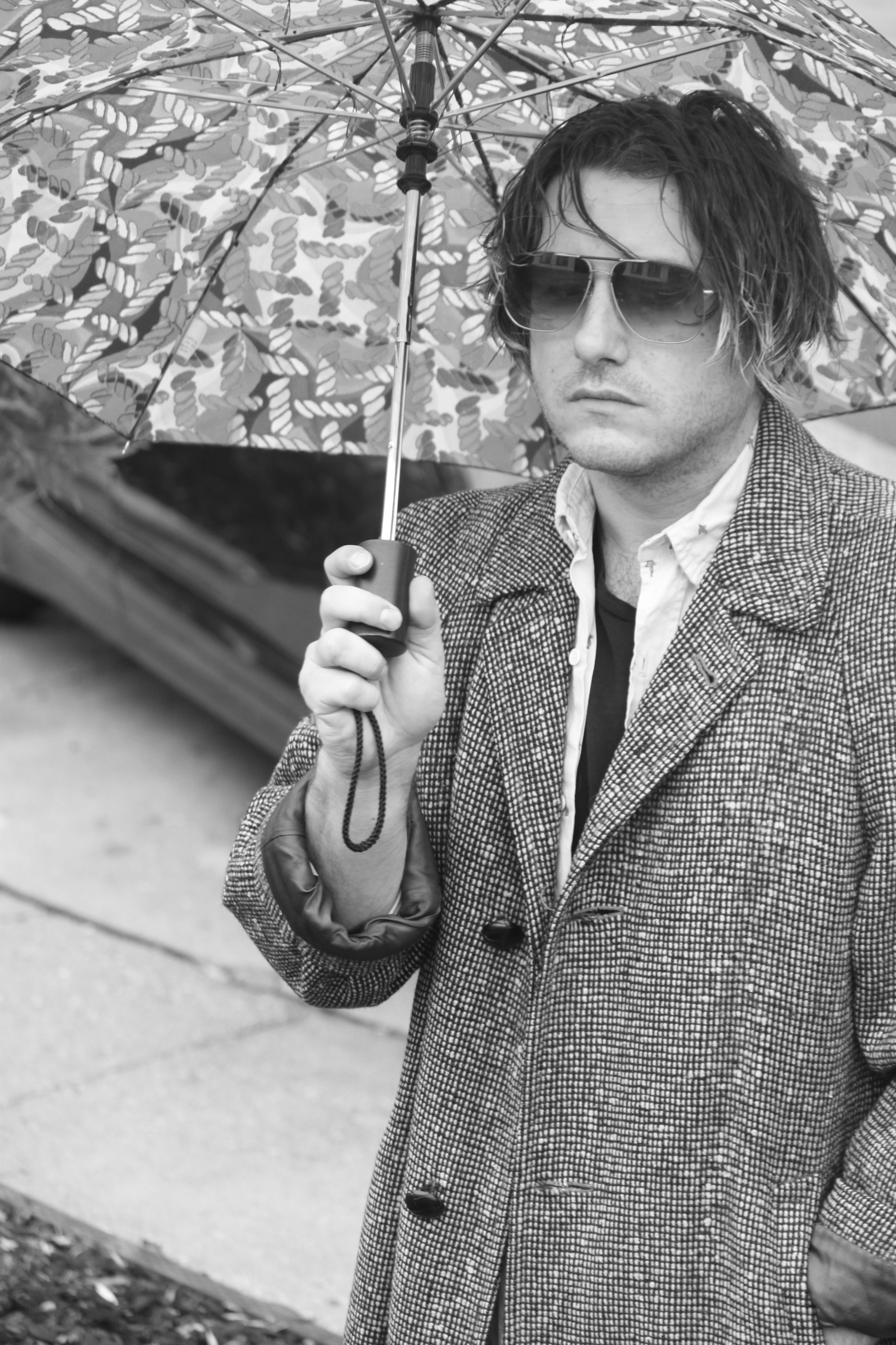 Justin Raisen, music producer